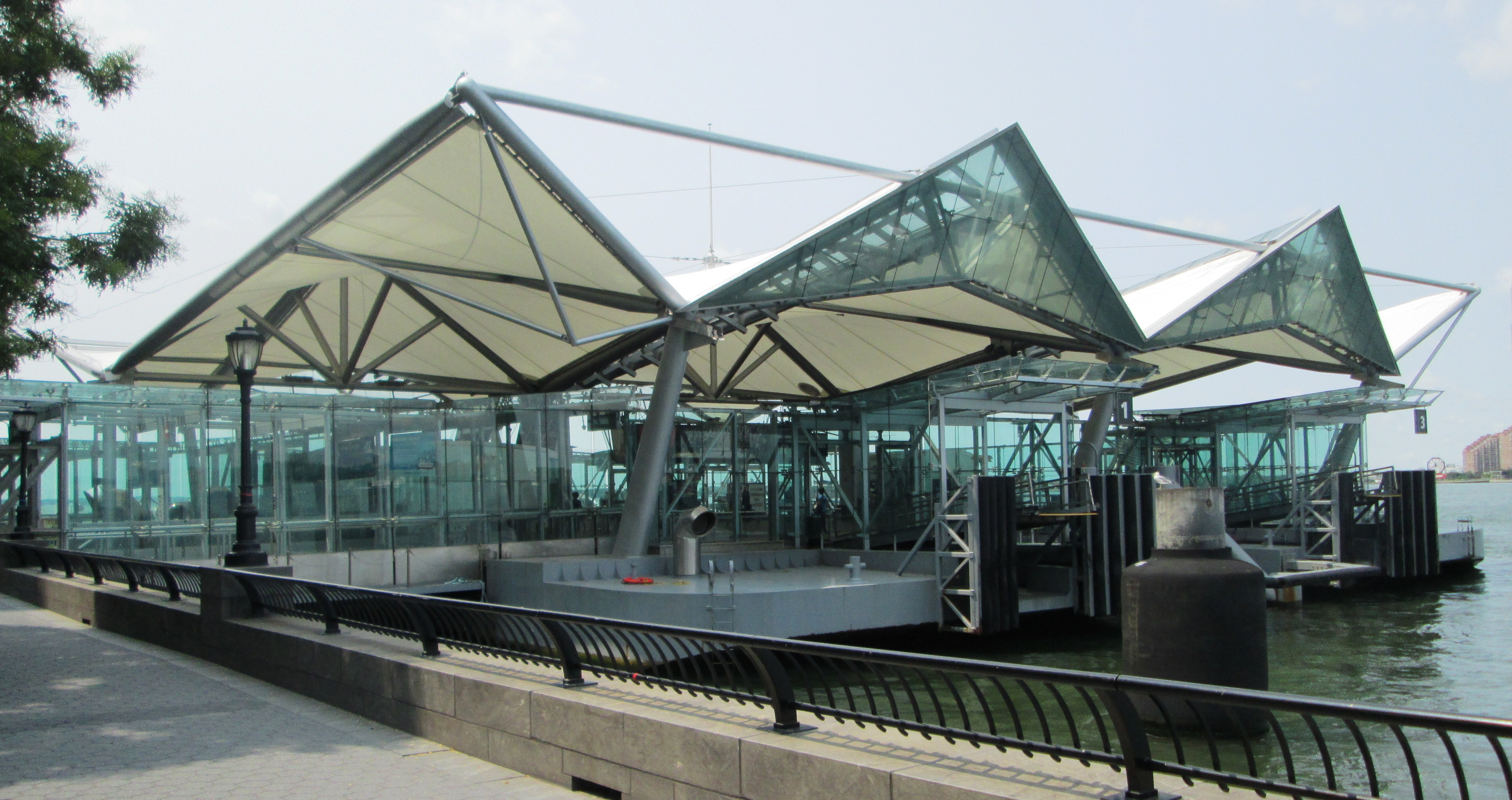 The Battery Park City Ferry Terminal is a floating concourse on the Hudson River anchored to the Battery Park City Esplanade in front of the New York Merchantile Exchange. It was built in 2001 and was designed by FTL Happold. (Source: AIA Guide to NYC (5th ed.))